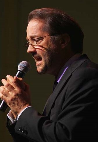 Musician Tom Kelly, writer of Madonna's #1 hit, "Like a Virgin"